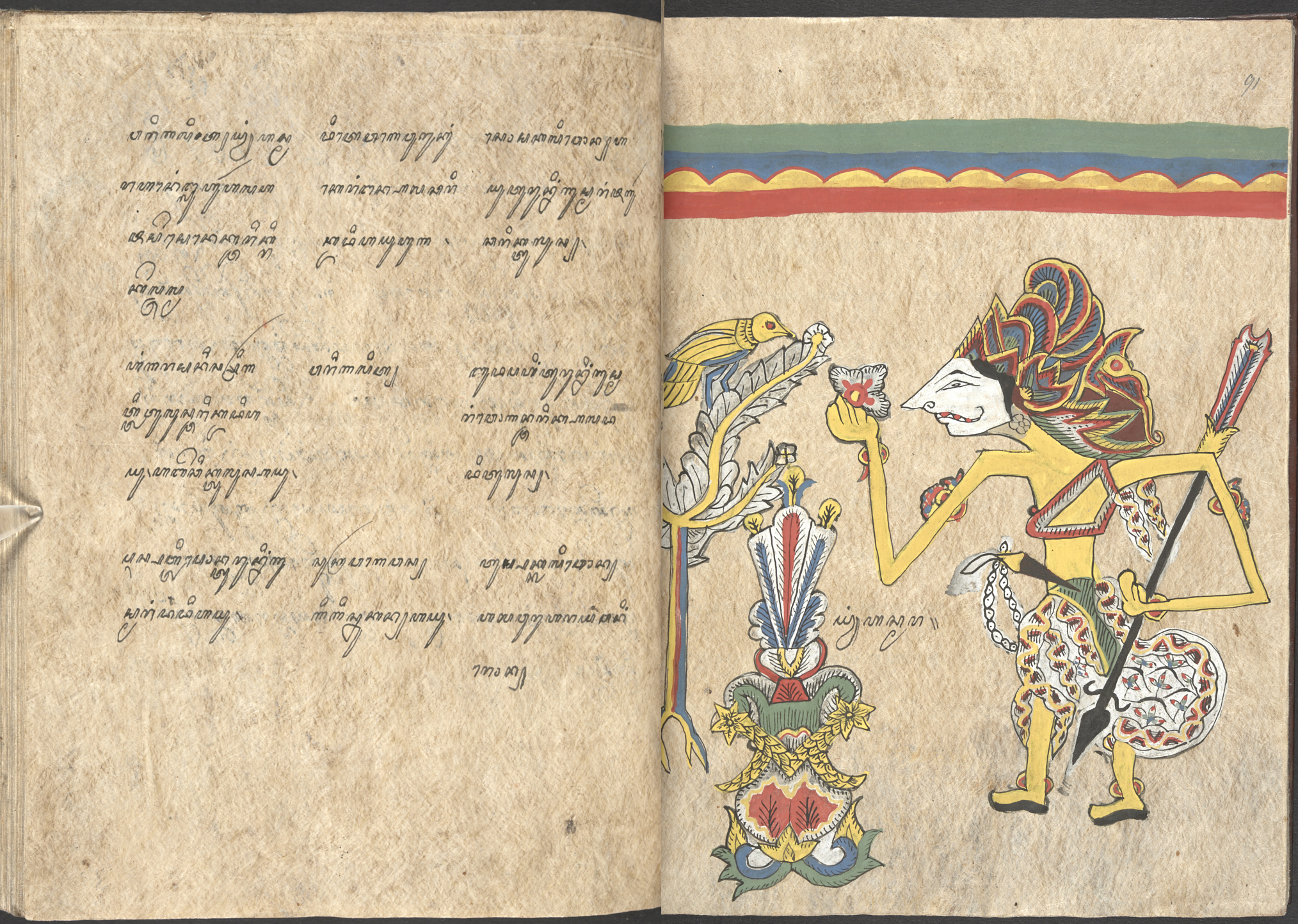 Wuku Wariga Alit, in a Pawukon from Yogyakarta, 1807. British Library